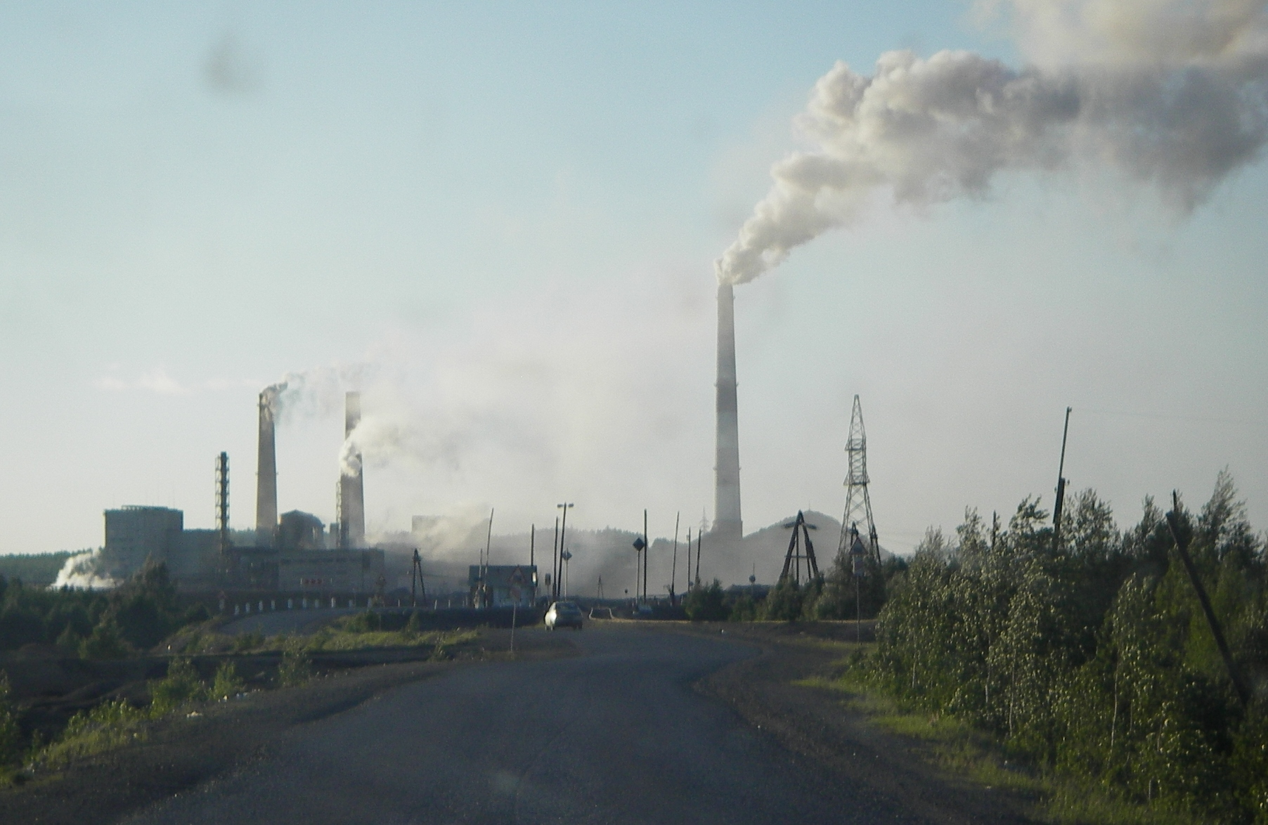 Copper melting plant in Karabash, Chelyabinsk region, Russia.